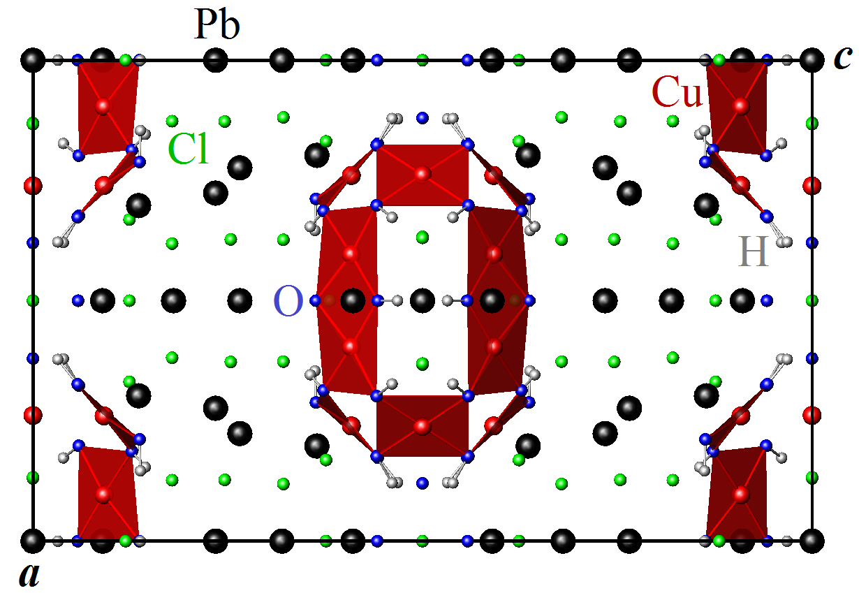 Crystal structure of the cumengeite Pb21Cu20Cl42(OH)40·6H2O, I4/mmm, projected onto the (a, c) plane. Black: Pb, red: Cu, green: Cl, blue: O, gray: H.